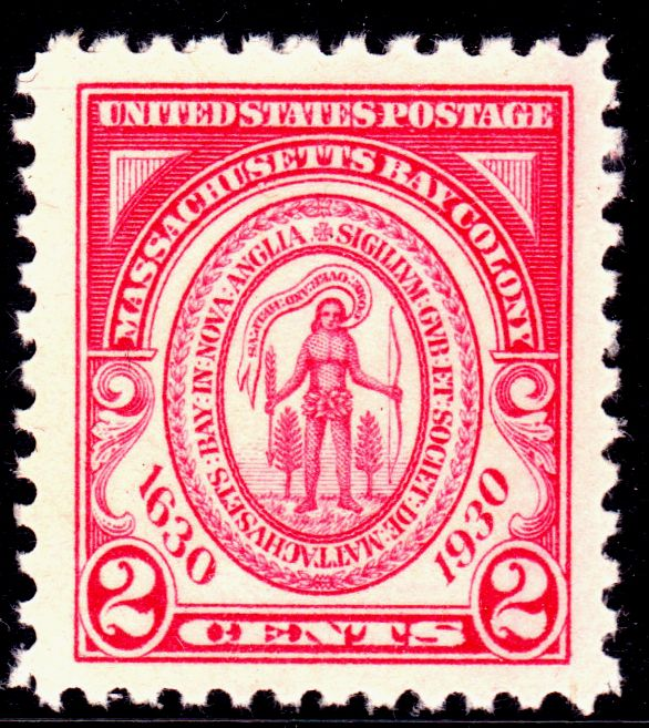 Massachusetts_Bay_Colony_1930_Issue-2c.jpg